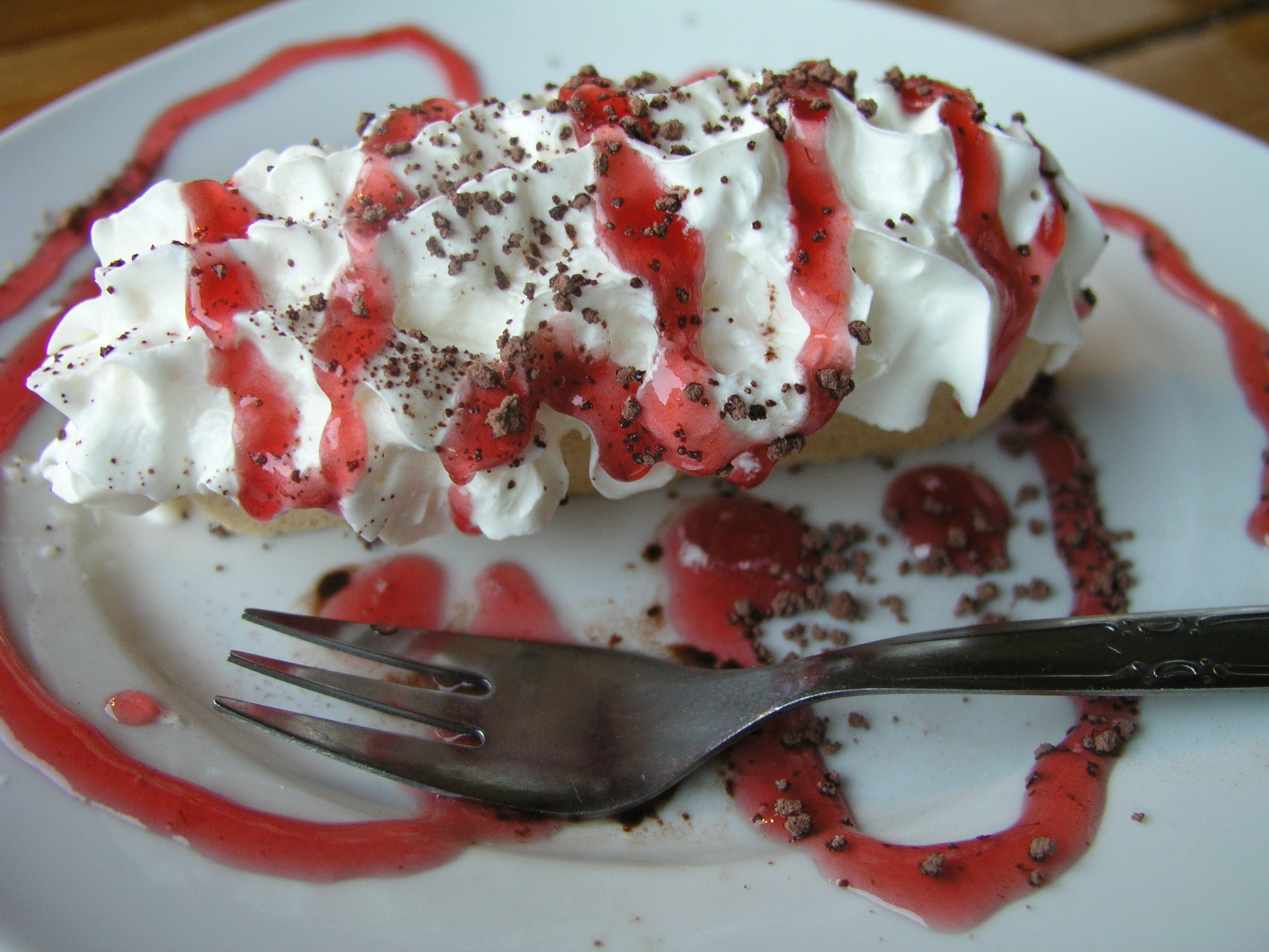 "Rakvička" (lit. little coffin), Czech cookie with whipped cream